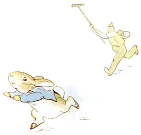 Illustration from children's book The Tale of Peter Rabbit